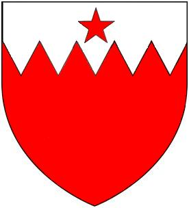 Arms of FitzWarren of Brightley, Chittlehampton, Devon: Gules, on a chief indented argent a mullet of the first. These arms are shown quartered on the Giffard monument in Chittlehampton Church, Devon